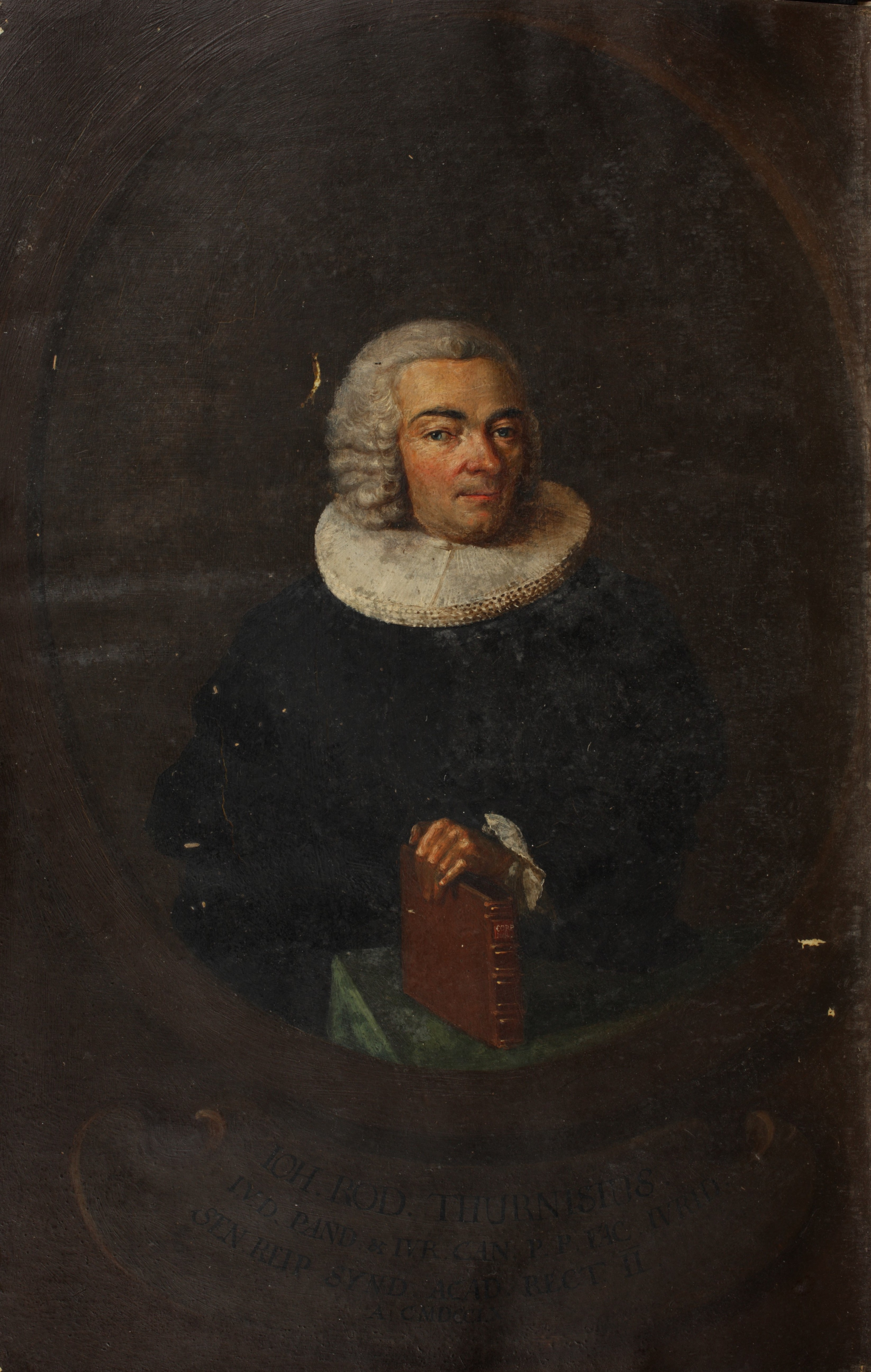 The Matriculation Register of the Basel Rectorate, recorded in manuscript form from 1460 to 2000, contains annual information notices added by each successive rector as well as lists of enrolled students. The rich book decoration in the first three volumes is particularly notable. The work of 3 centuries, it is easily datable due to the chronogical order in which it was added and thus provides a welcome demonstration of the art of miniature painting in Basel.